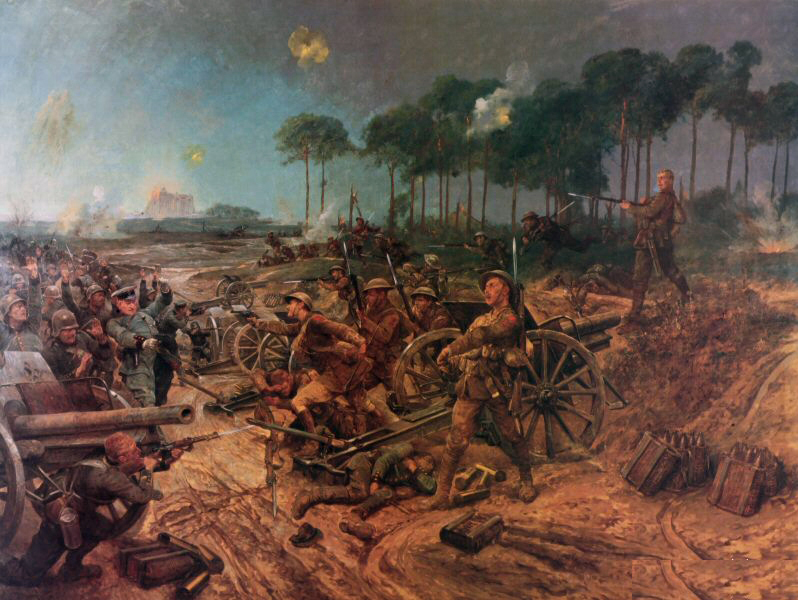 C Company, 2nd Battalion, The Manchester Regiment taking a German battery at Francilly Sellency, April 1917.